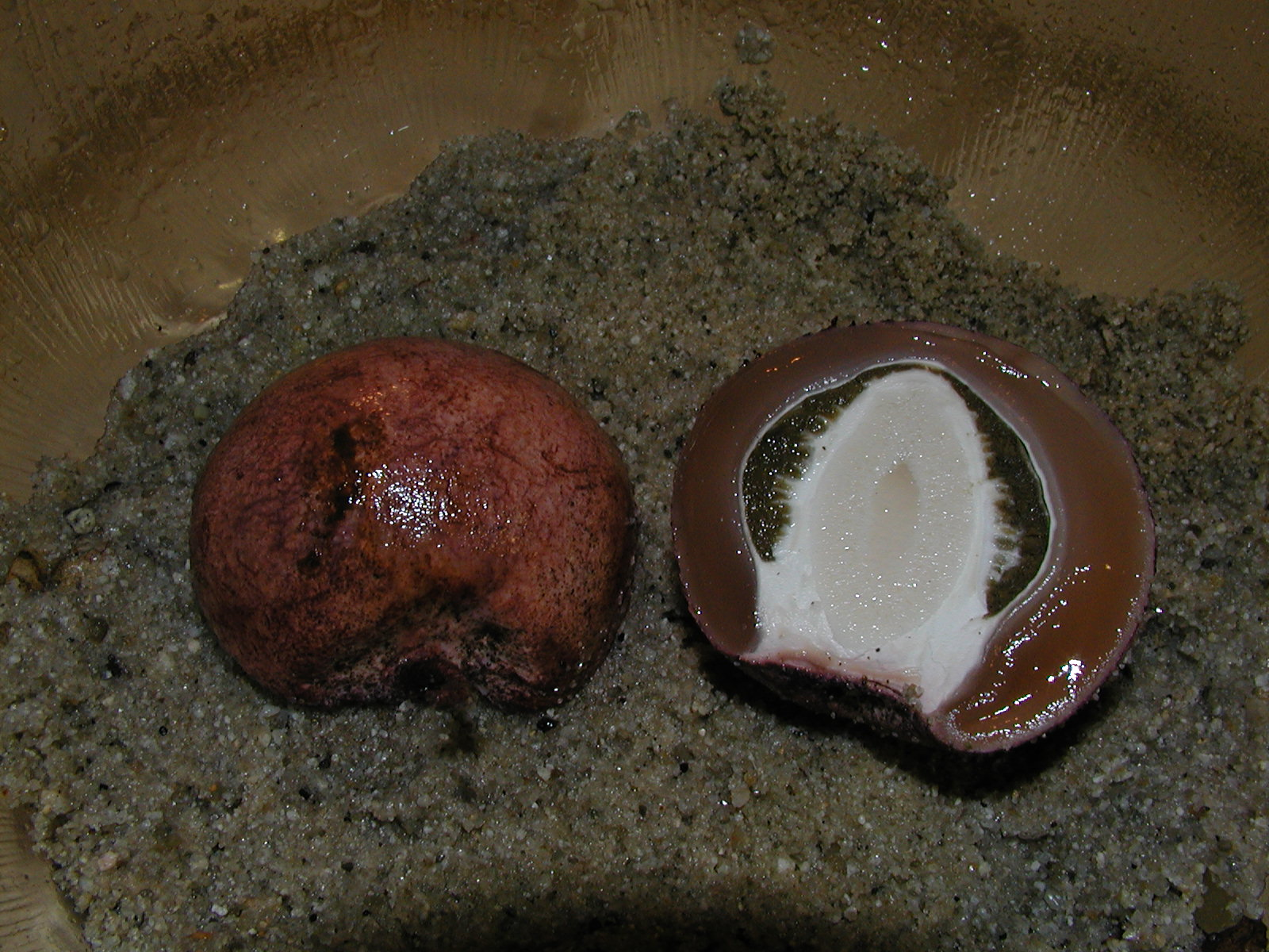 A cross section of the immature fruiting bodies of the stinkhorn mushroom Phallus hadriani Vent. Photographed at the Santa Cruz Fungus Fair, Santa Cruz, Santa Cruz Co., California, USA.